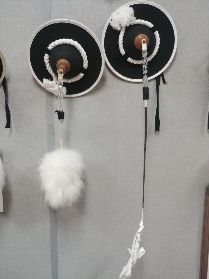 Sang-mo